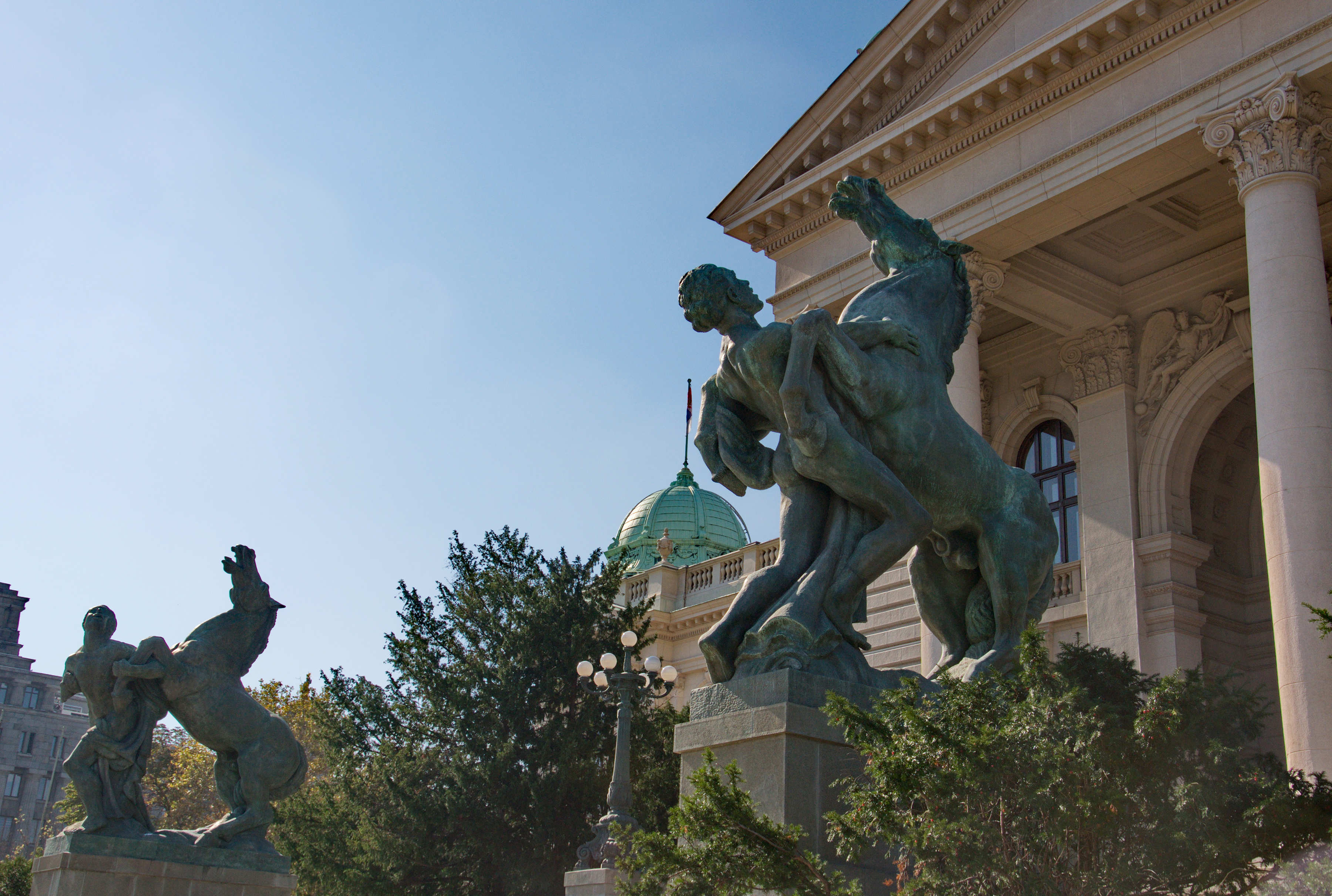 Dom Narodne skupštine je reprezentativna, samostojeća palata, strktno projektovano u maniru akademizma. Na stranama prilaznog stepeništa postavljen je par skulptura "Igrali se konji vrani, vajara Tome Rosandića.